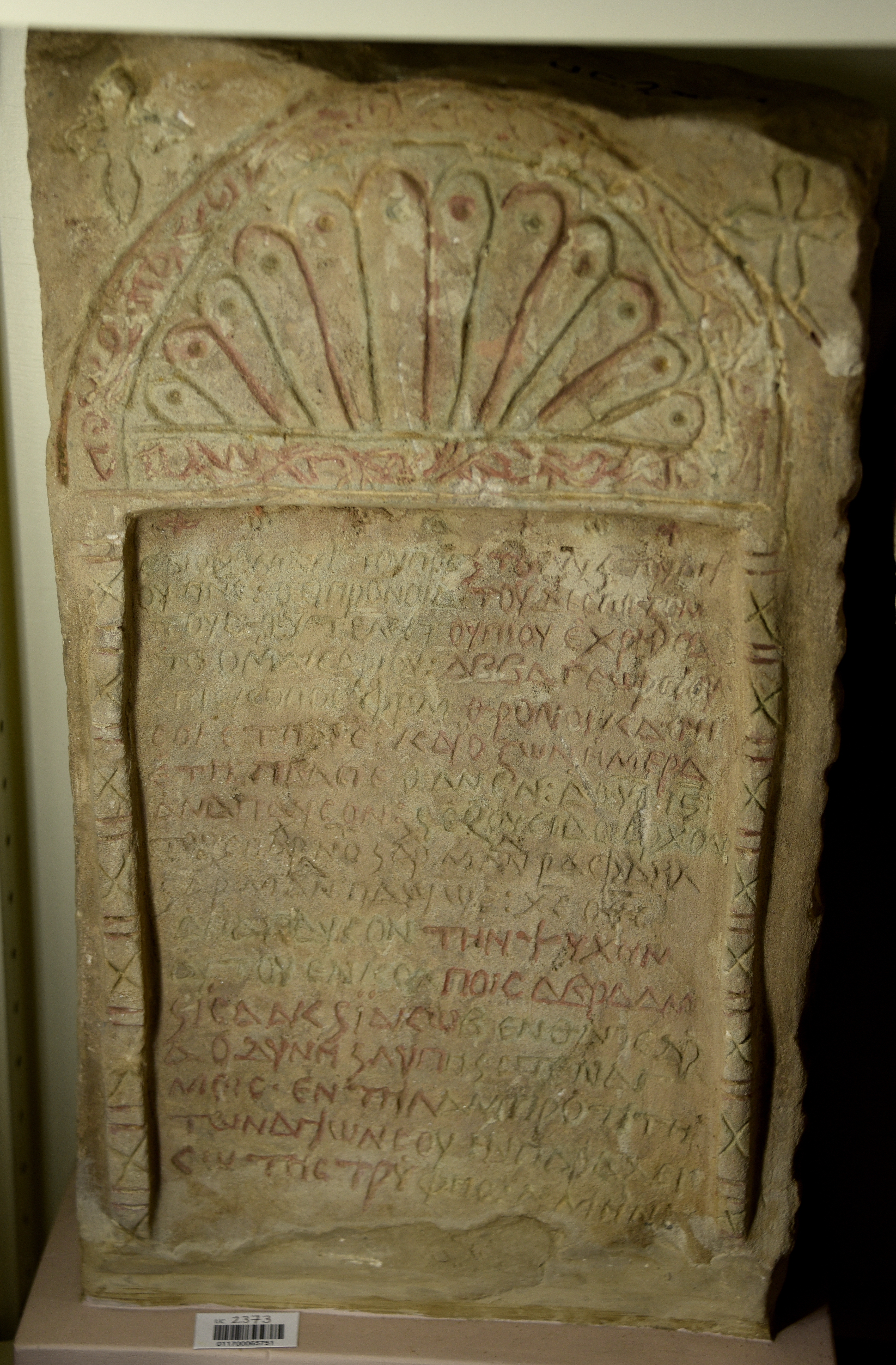 This sandstone stela dates back to the 10th to 11th century CE. The inscription is Greek. It mentions Georgios, bishop of Ibrim. Found inside the second tomb, south of the church at Qasr Ibrim, Lower Nubia, modern-day Egypt. It is currently housed in the Petrie Museum of Egyptian Archaeology, London. With thanks to the Petrie Museum of Egyptian Archaeology, UCL.